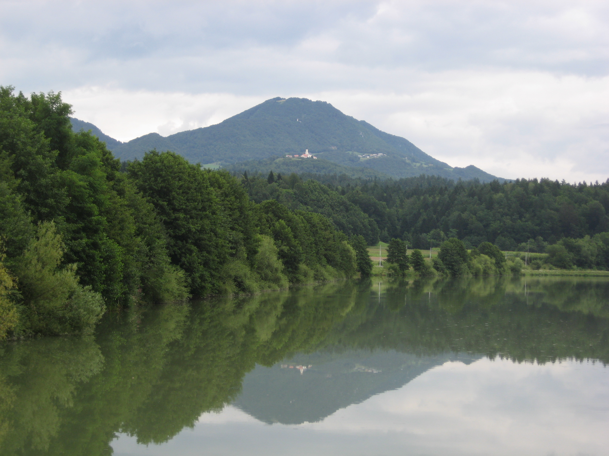 Lisca, mountain in Slovenia